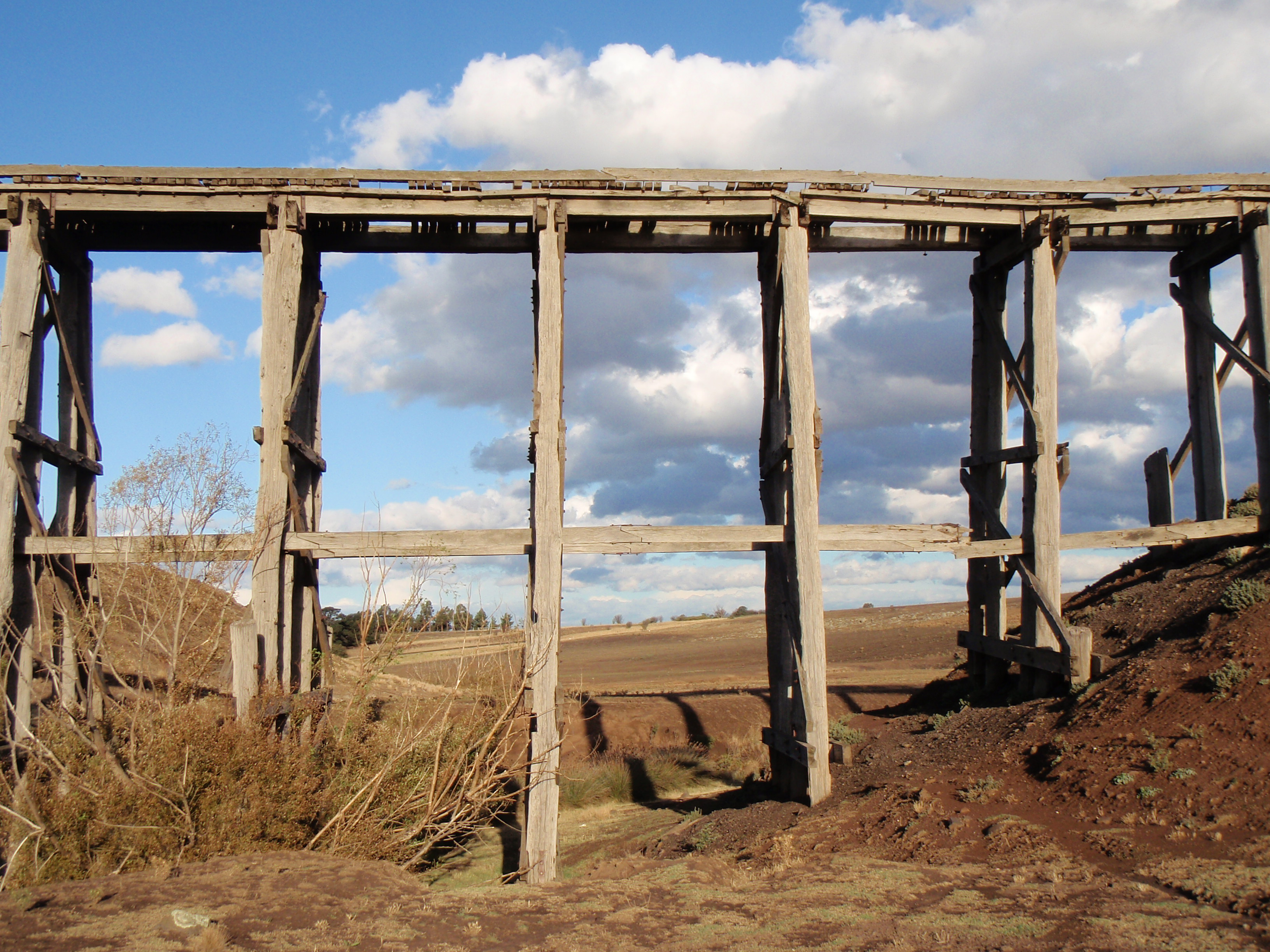 The wooden trestle bridge which carried the former Lancefield railway line across Bolinda Creek, south of Bolinda, Victoria.